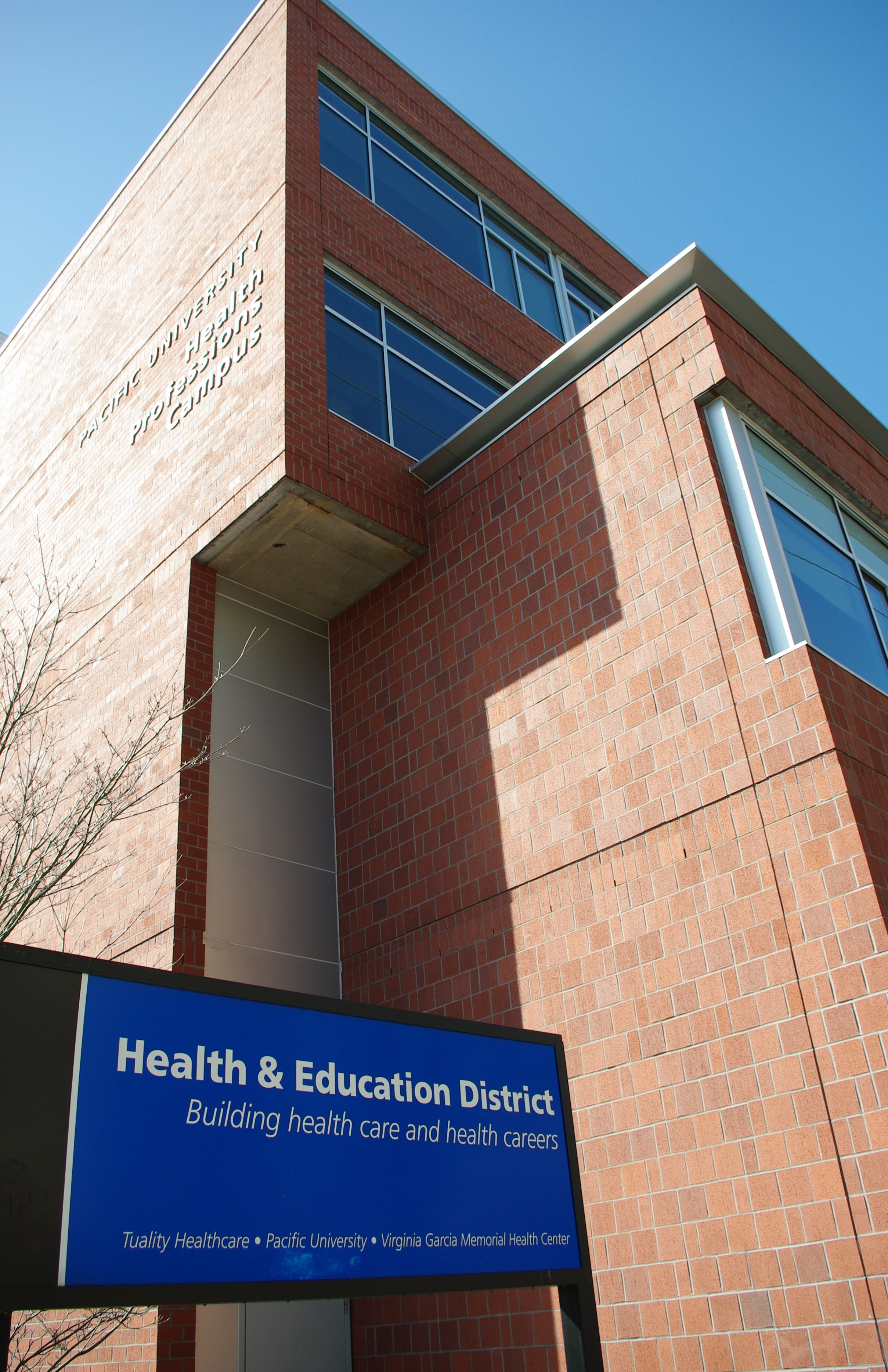 Sign for the Health and Education District in Hillsboro, Oregon, with Pacific University Health Professions Campus building (Creighton Hall) in background.